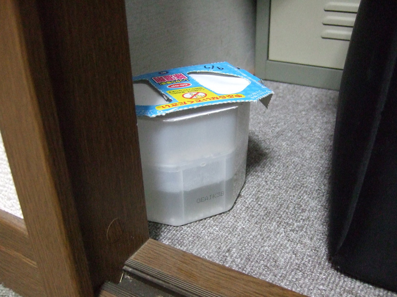 Dehumidification medicine